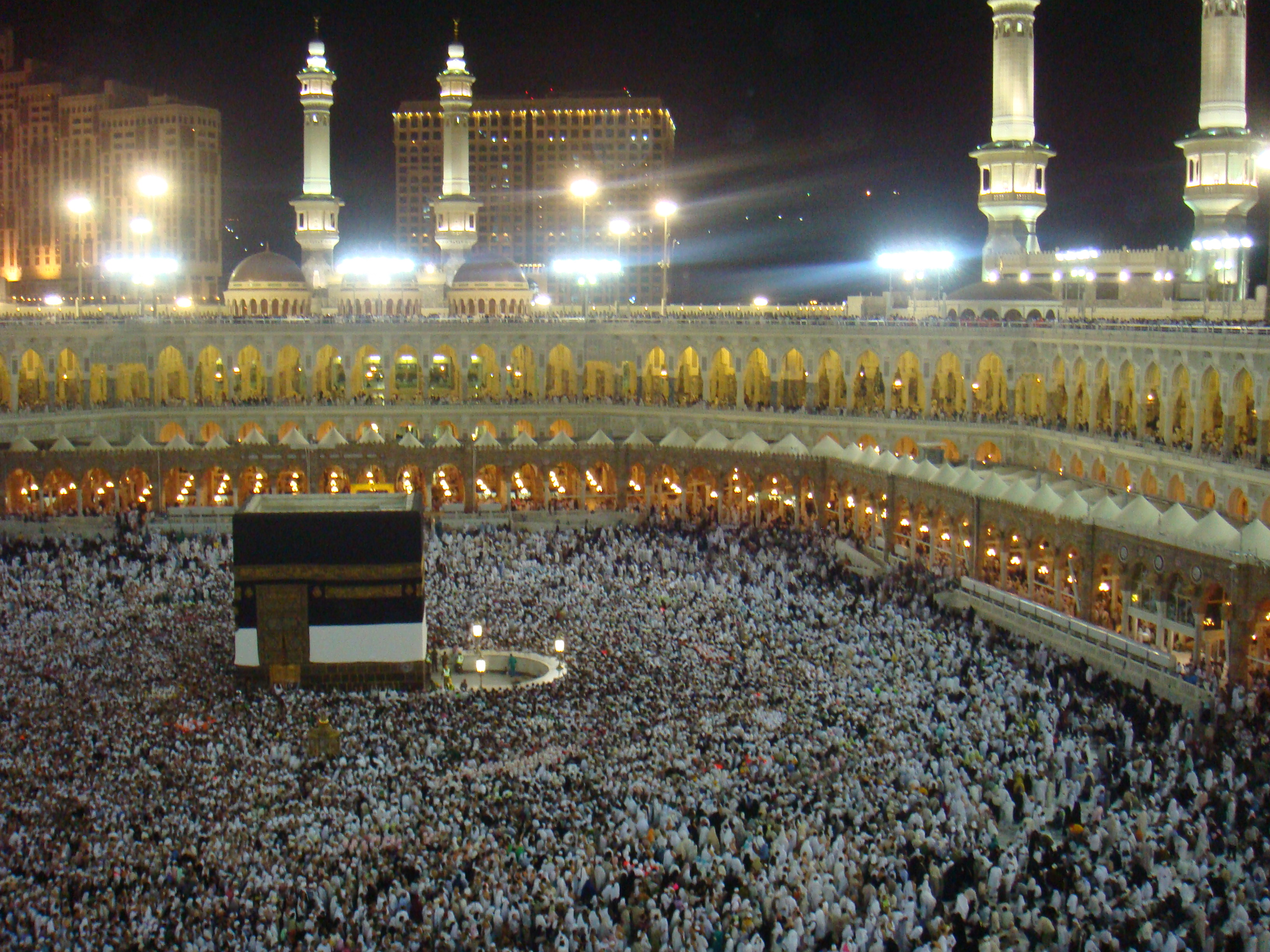 Hundreds throng around the Kaaba at the start of Hajj